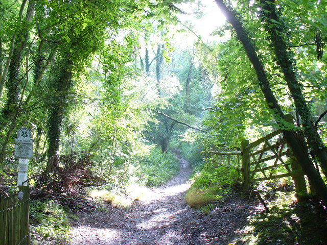 The Holies Entering National Trust-owned deciduous woodland at the head of The Coombe, Streatley.